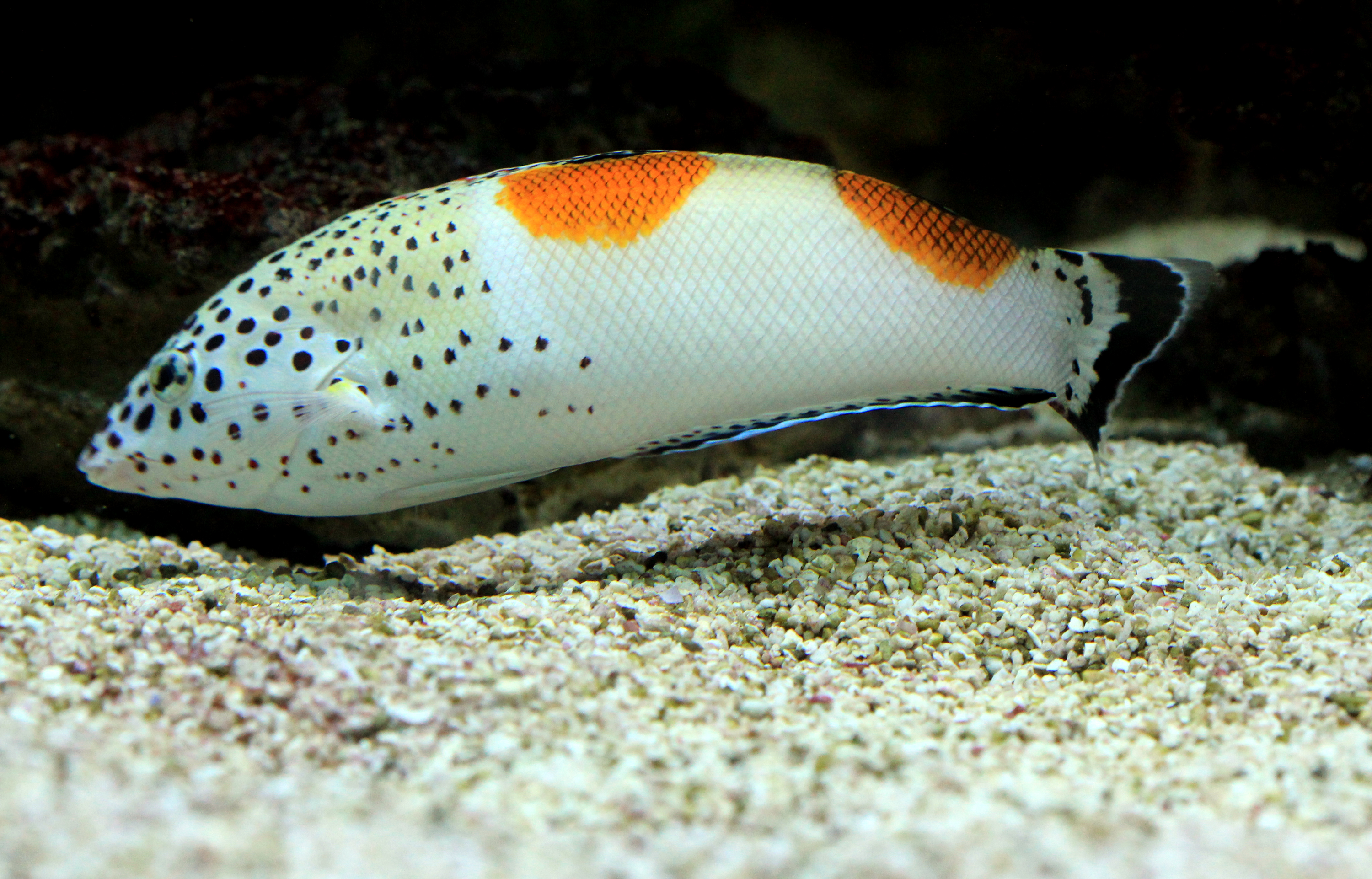 Fish Clown coris, (Coris aygula) in Prague sea aquarium “Sea world”, Czech Republic